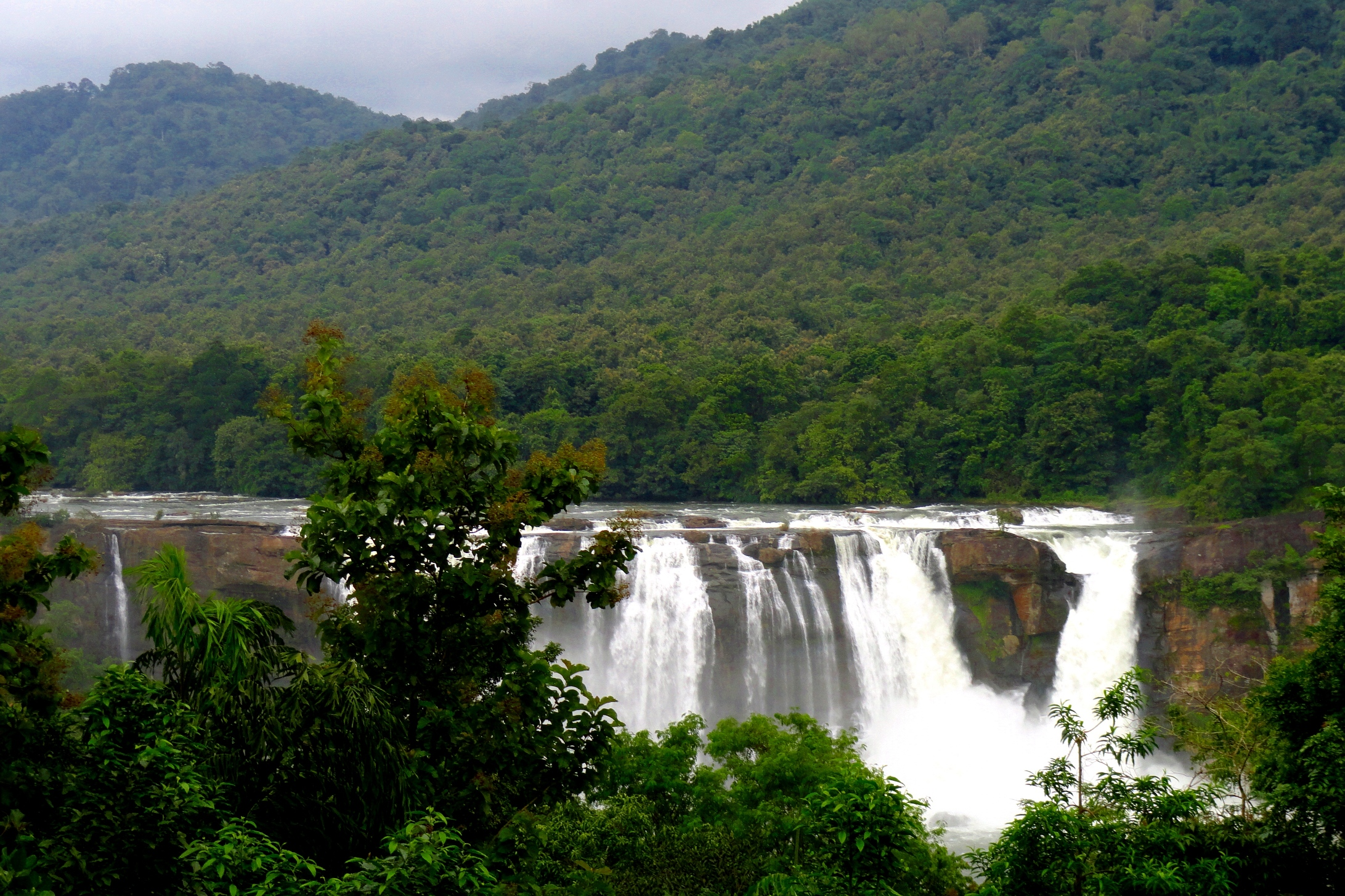 Athirappalli Waterfalls, Thrissur, Kerala, India. Photo clicked during Monsoon season.